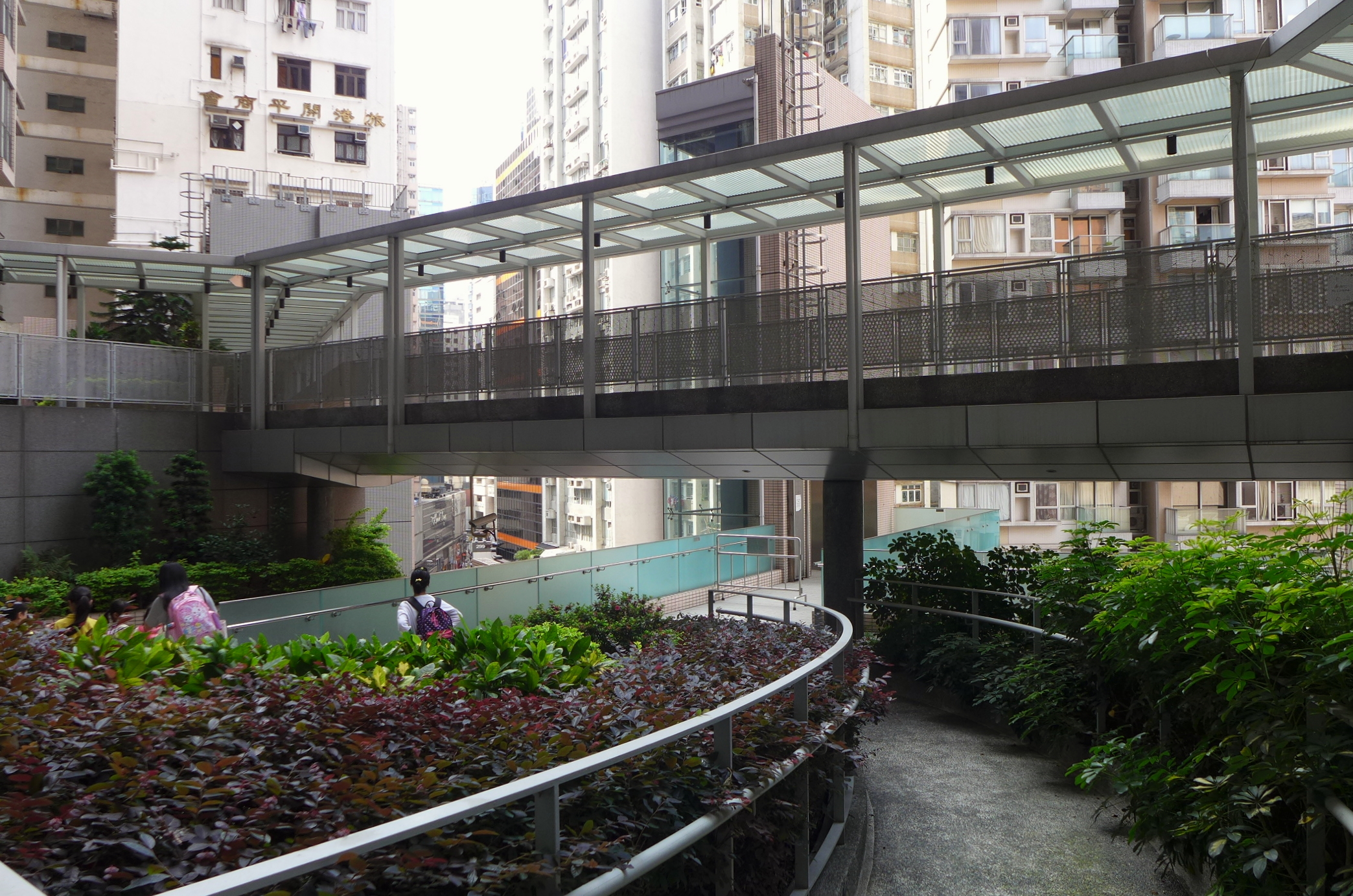 Hollywood Terrace